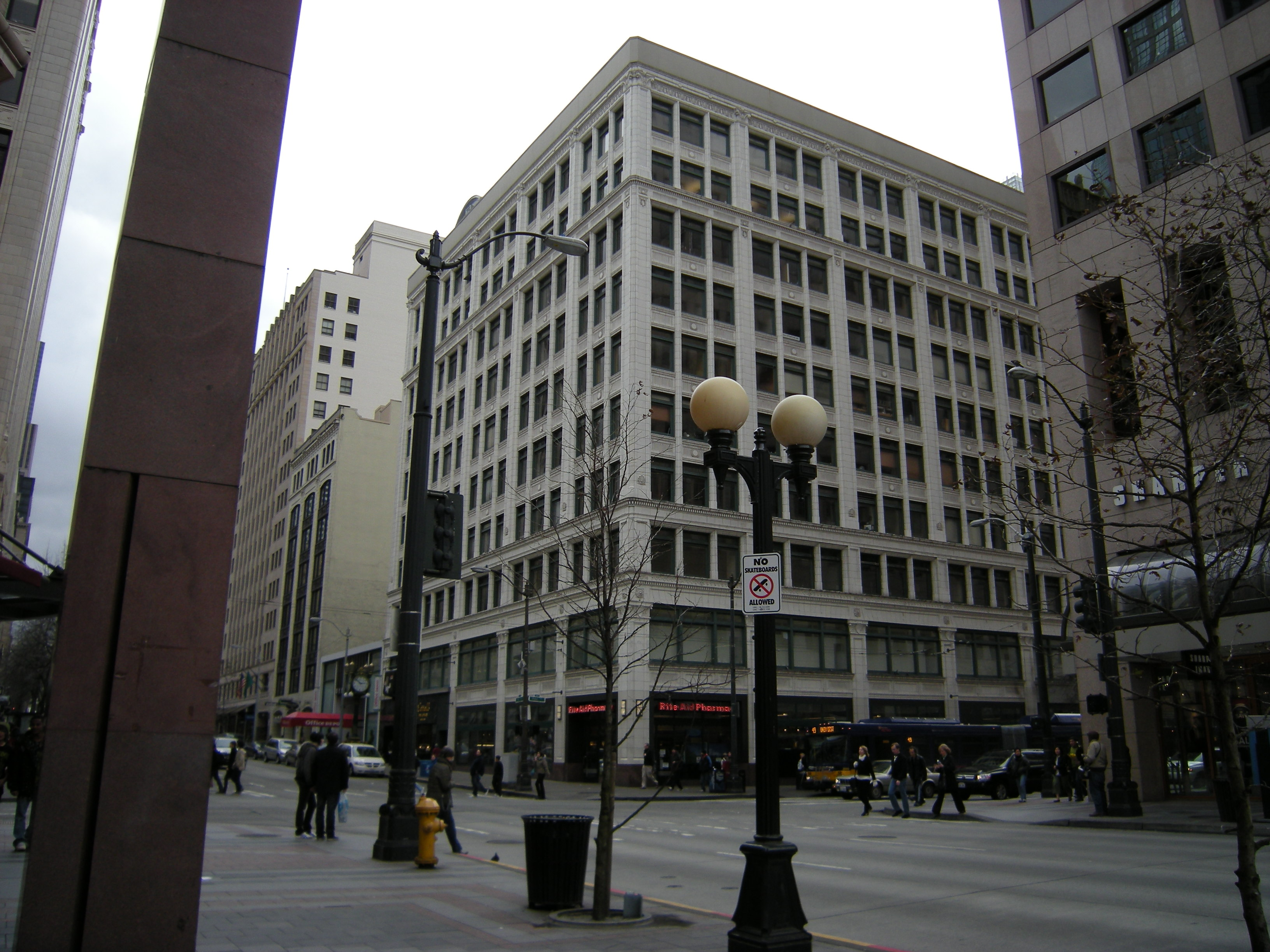 Joshua Green Building, 1425 4th Ave, Seattle, Washington. The building has city landmark status.